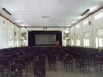 This is the main hall of Veyangoda Bandaranaike Central College.